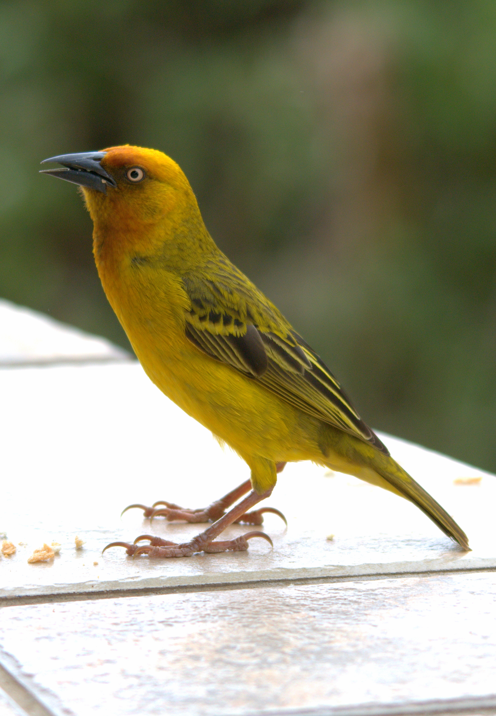 Cape Weaver Ploceus capensis